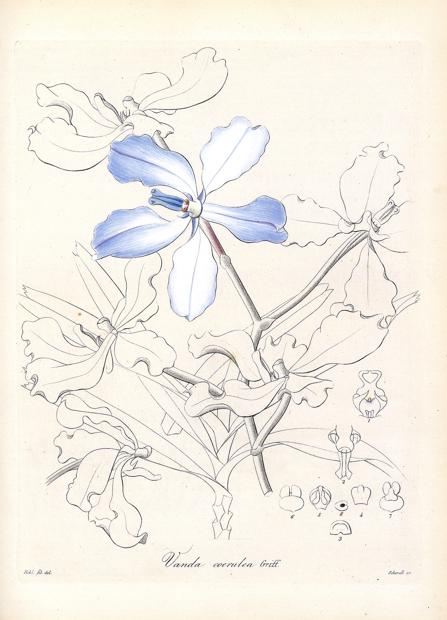 Illustration of Vanda coerulea